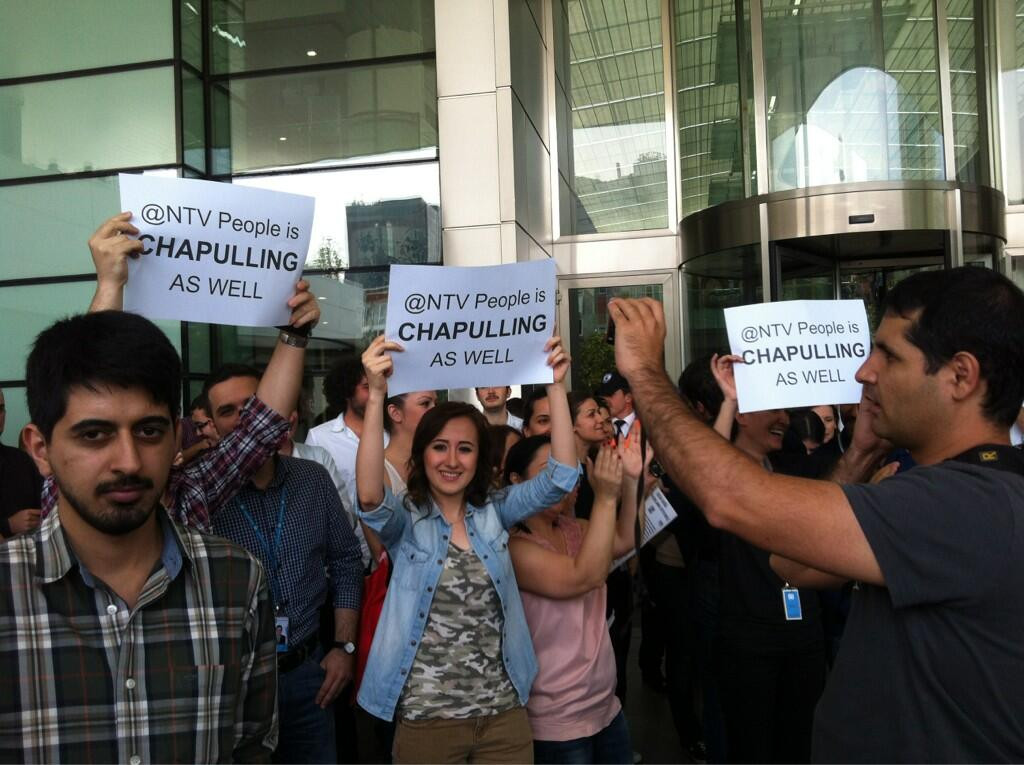 A news channel's workers chapulling.